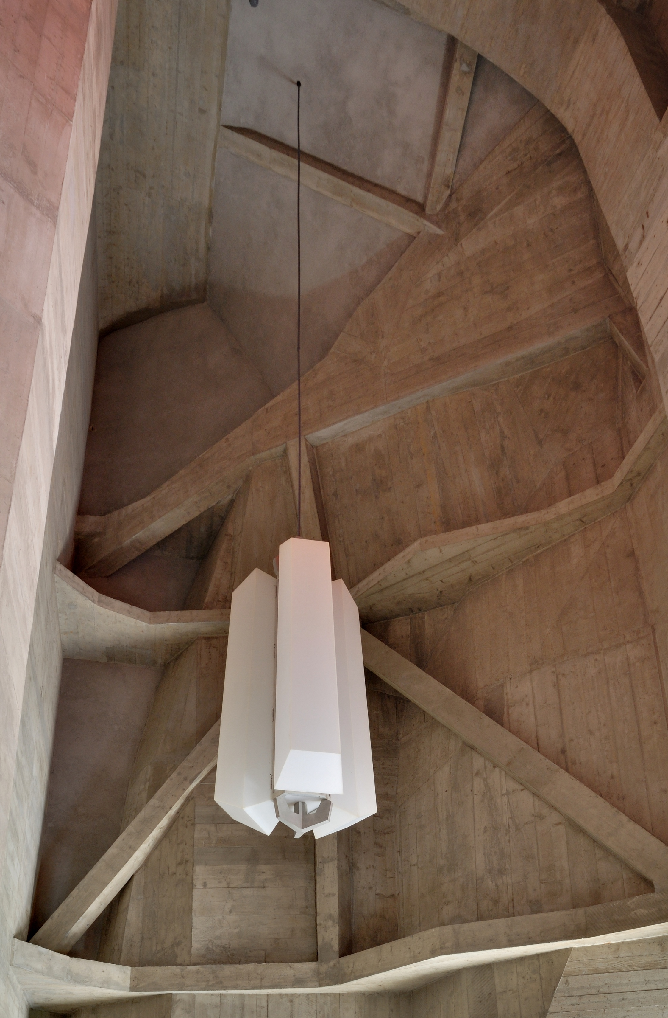 Goetheanum: western staircase